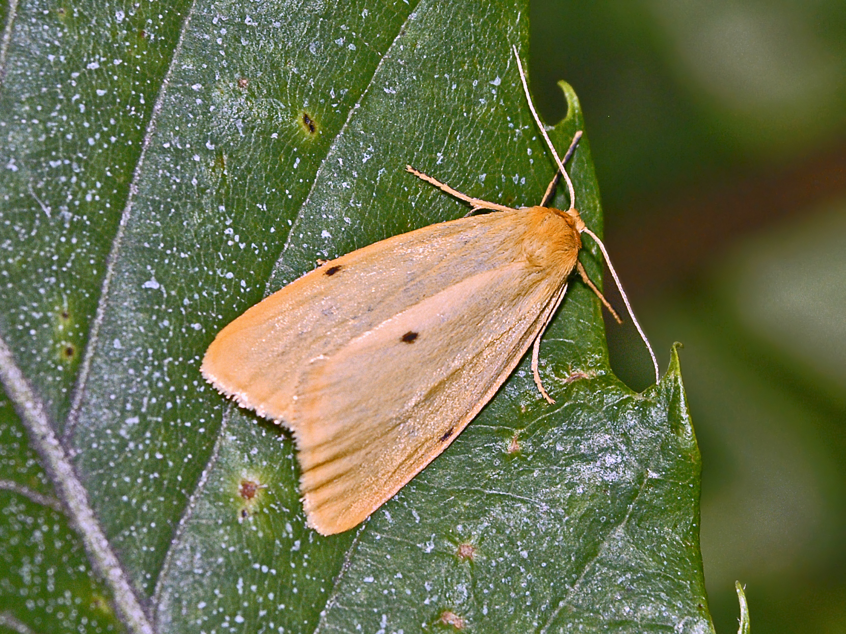 Cybosia mesomella f. flava. Piani di Praglia, Genova, Italy